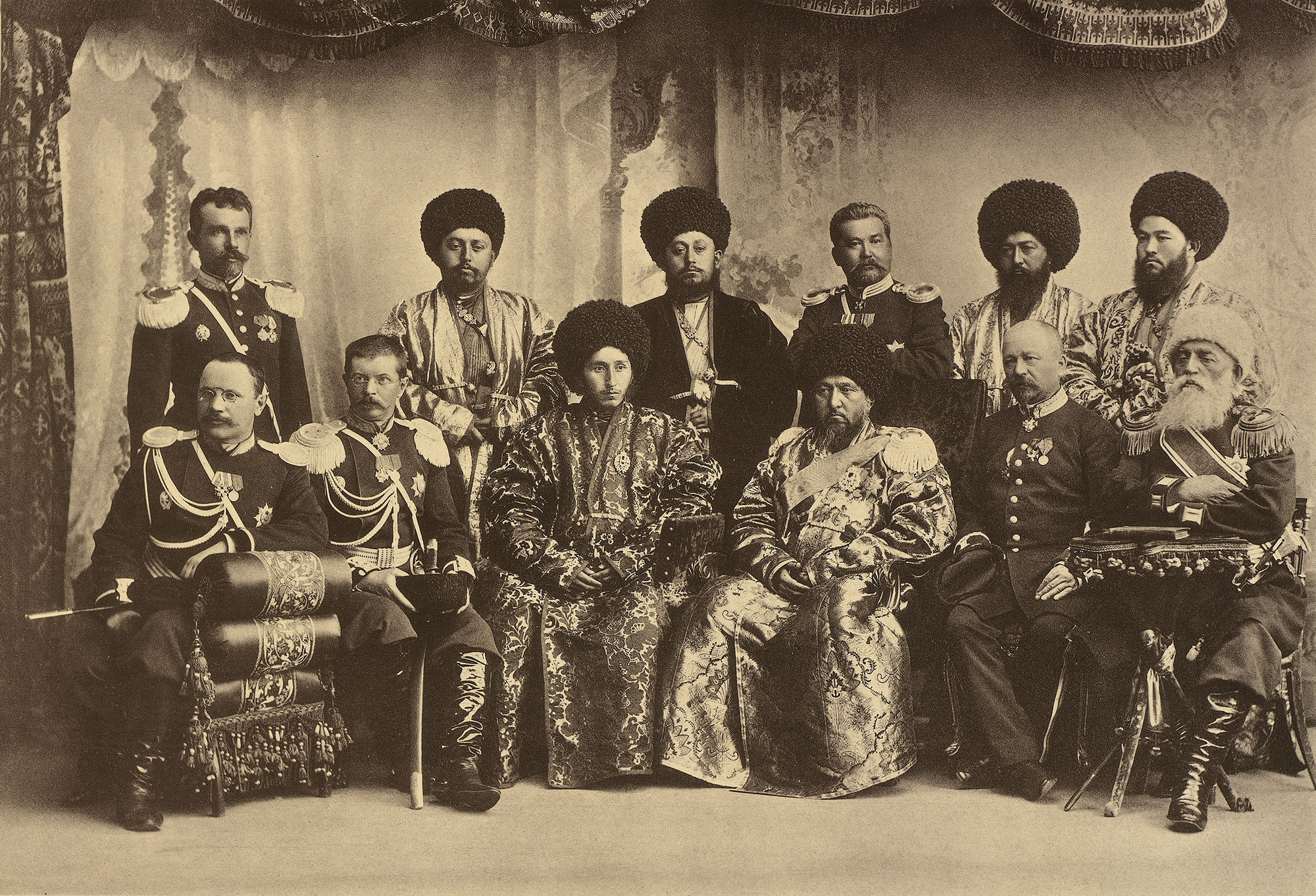 representatives of the Khanate of Khiva present at the coronation of Nicholas II, Emperor of Russia. There are twelve men arranged in a group with six seated in a row and six standing behind. Seid-Mahomet-Rakhim-Bogadour-Khan, Khan of Khiva is sitting third from the right